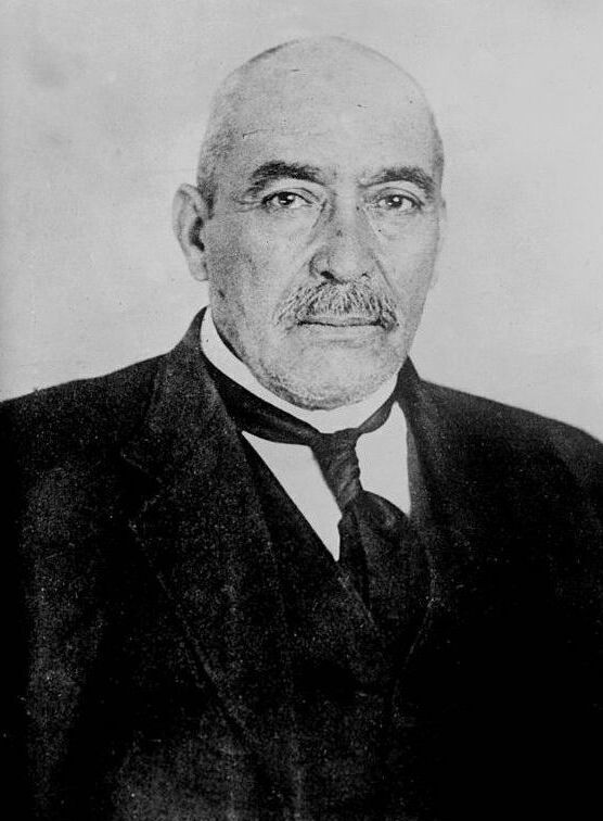 Portrait of former President of Mexico, Victorian Huerta reuploaded by Emiya1980. Cropped using Photo Editor at Contrast increased using Mac OS (Preview).